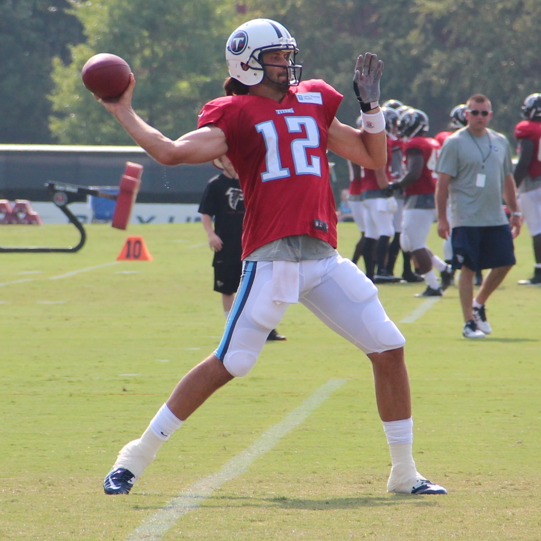 Charlie Whitehurst passing